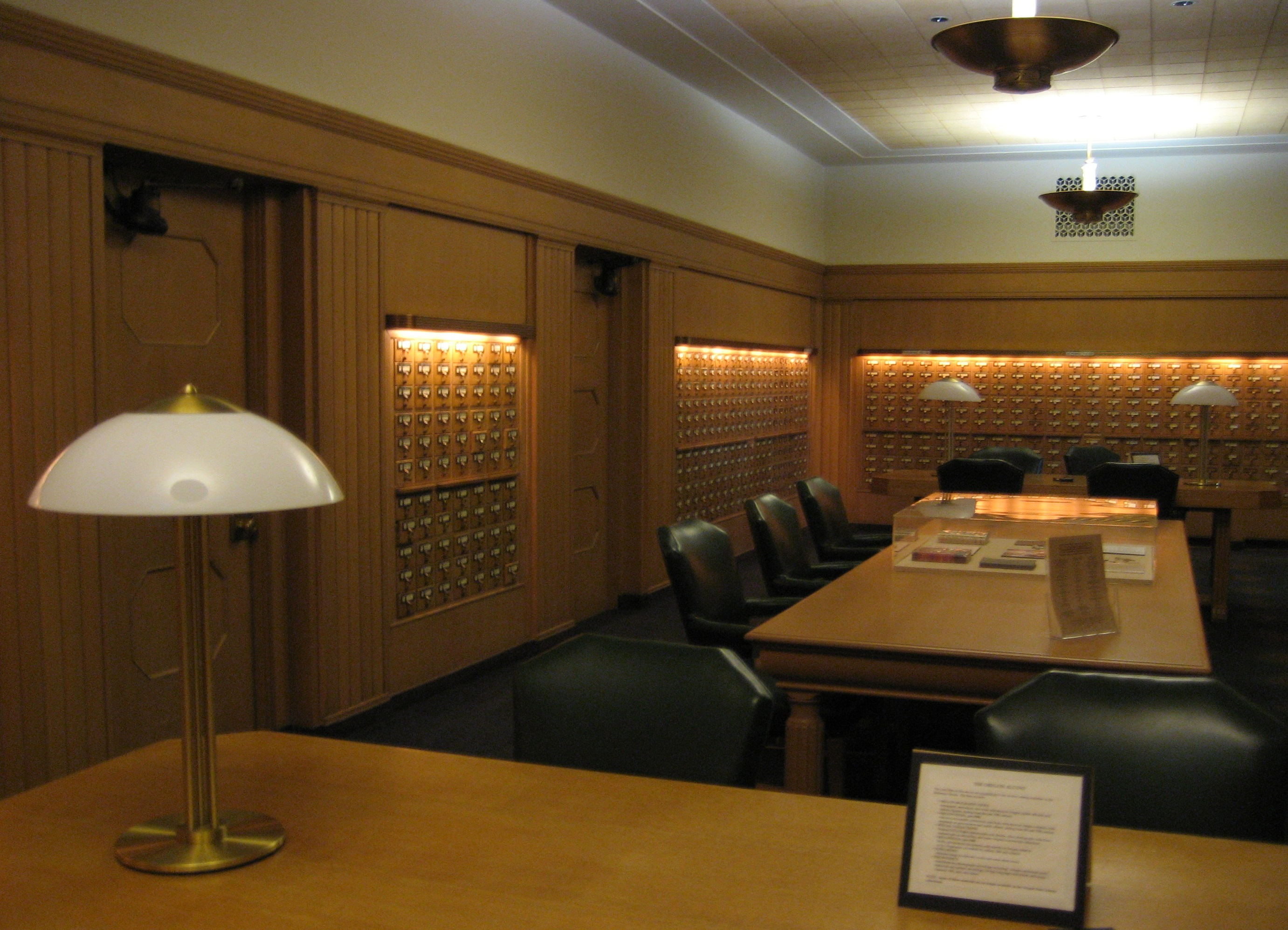 Oregon State Library Category:Images of Salem